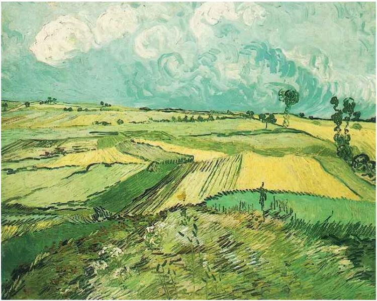 "Wheatfield at Auvers under Clouded Sky", painting by Vincent van Gogh at Auvers-sur-Oise, July 1890, Oil on Canvas, Carnegie Museum of Art Pittsburgh, Pennsylvania, United States of America, F: 781, JH: 2102